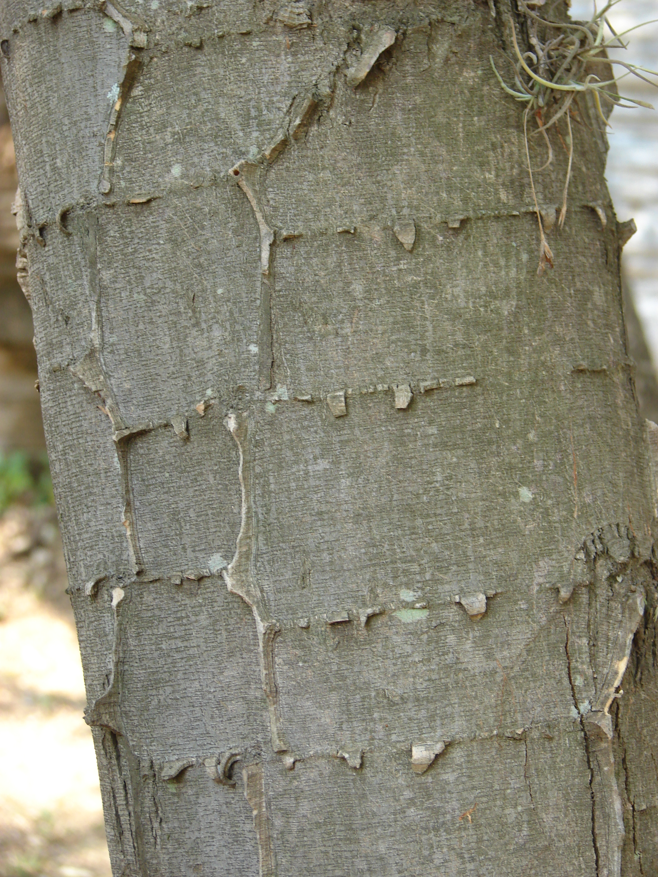 Piptadenia gonoacantha's young trunk detail (Brazil)